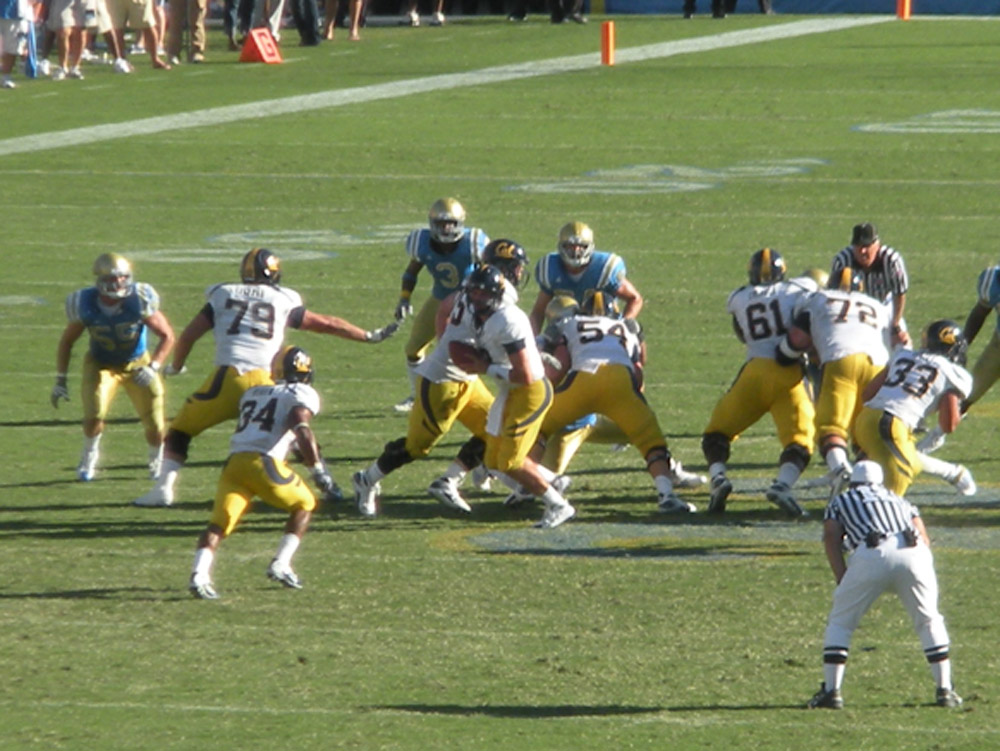 QB Kevin Riley (#13) hands the football to Shane Vereen (#34) during the Cal-UCLA football game at the Rose Bowl, 2009.